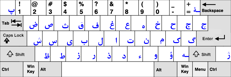 This is the beta version of layout, which will be completed soon